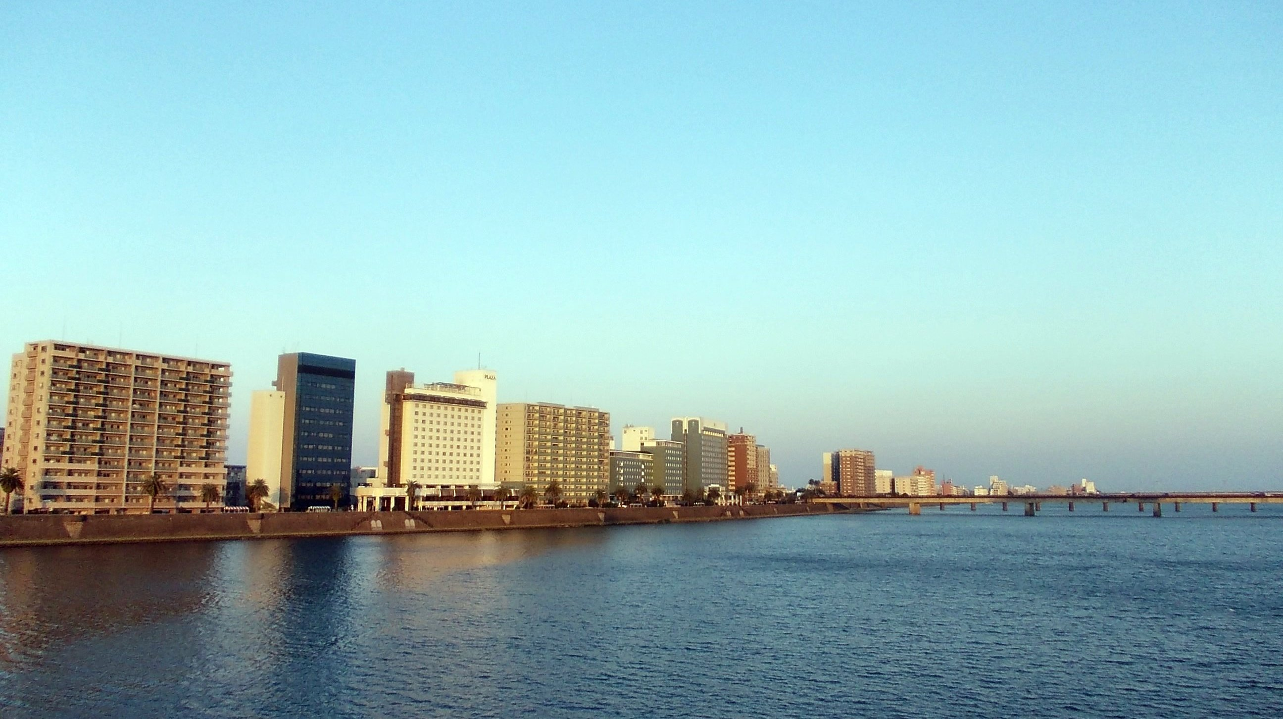 Oyodo River running through the Miyazaki City.